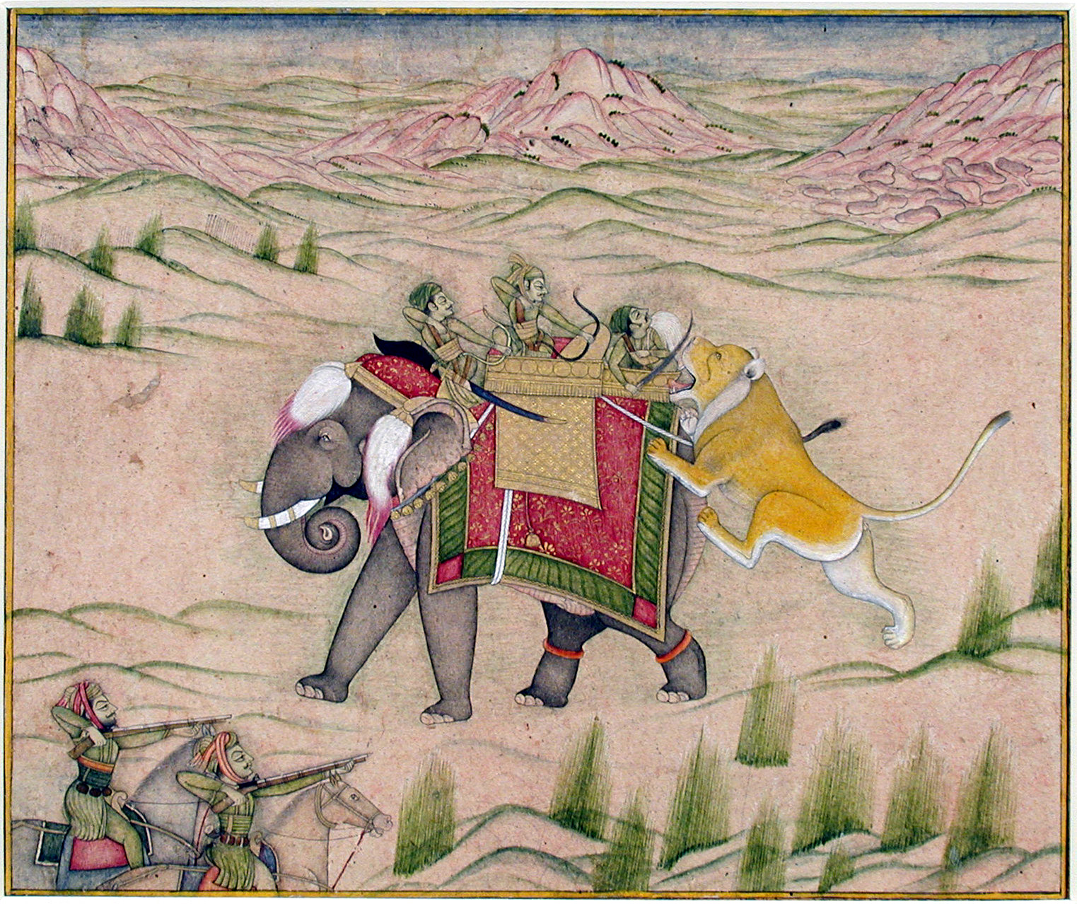 Creation Date: ca. 1810 Display Dimensions: 7 15/32 in. x 9 1/16 in. (19 cm x 23 cm) Credit Line: Edwin Binney 3rd Collection Accession Number: 1990.770 Collection: The San Diego Museum of Art